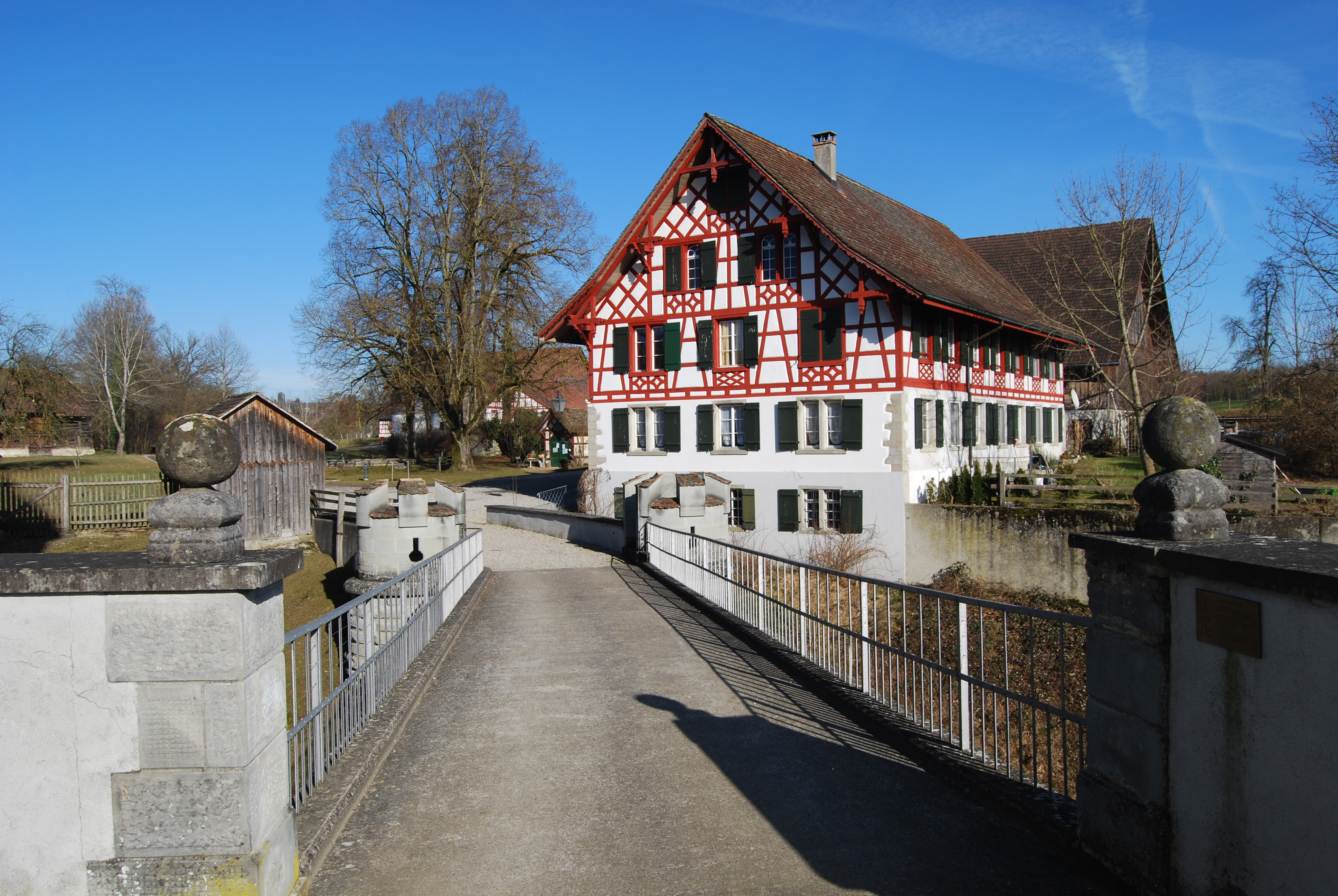 Altenklingen, municipaity of Wigoltingen, canton of Thurgovia, Switzerland